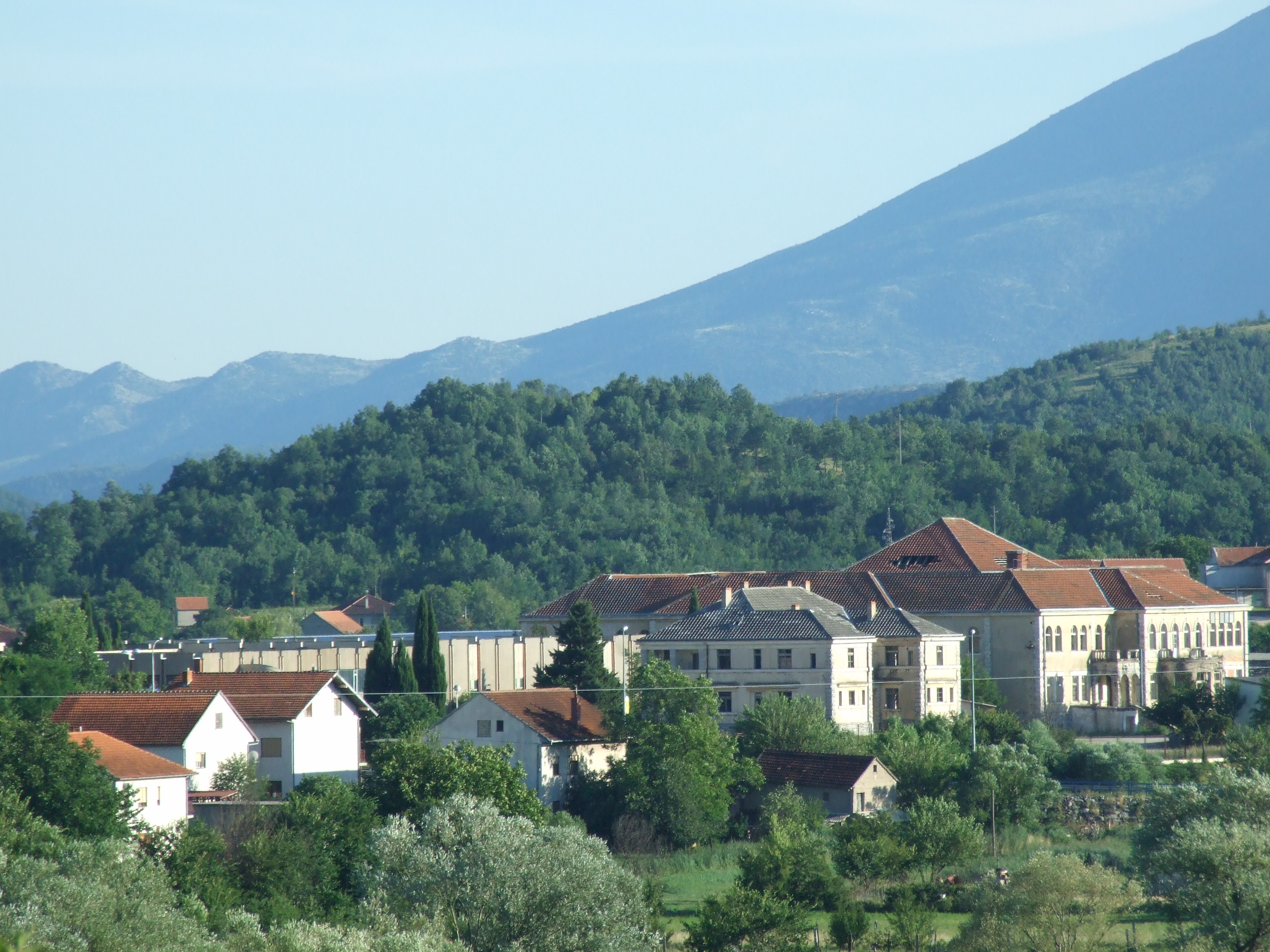 Knin, Croatia.